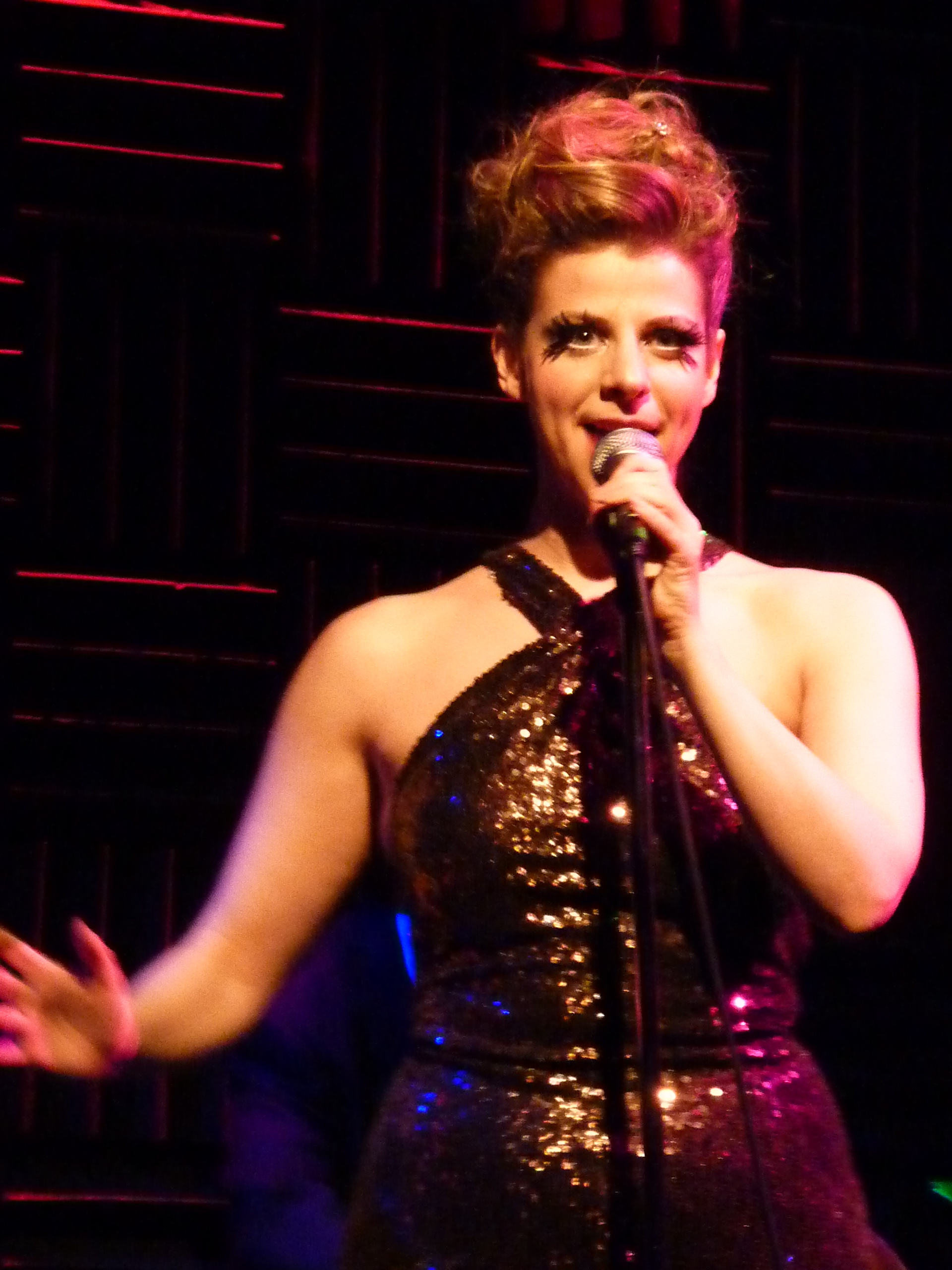 Lady Rizo at Joe's Pub 2009.